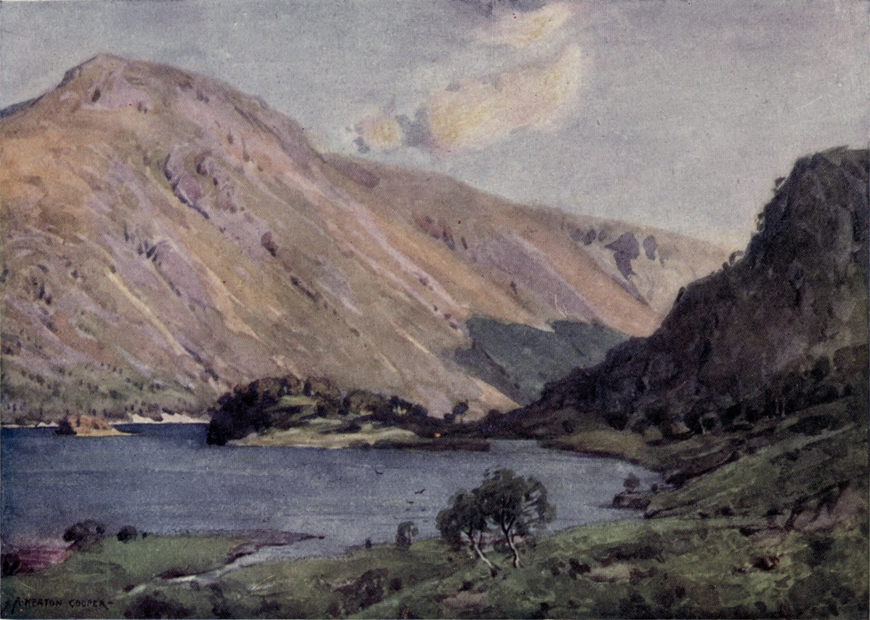 "Thirlmere and Helvellyn", painted by A. Heaton Cooper.